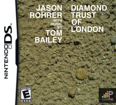 Diamond Trust of London box art - to conform to Nintendo's packaging guidelines, the game was officially renamed Jason Rohrer with Music by Tom Bailey: Diamond Trust of London in order to give Bailey credit on the cover. Released in 2012, the game was developed by Jason Rohrer, with music by Tom Bailey. The game and its supporting assets have been released into the public domain and is hosted on SourceForge at (license) Logos adorning the image are believed to be below the threshold of originality, and de minimis.